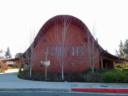 Front of the the church building and shows the bell curve of the roof.